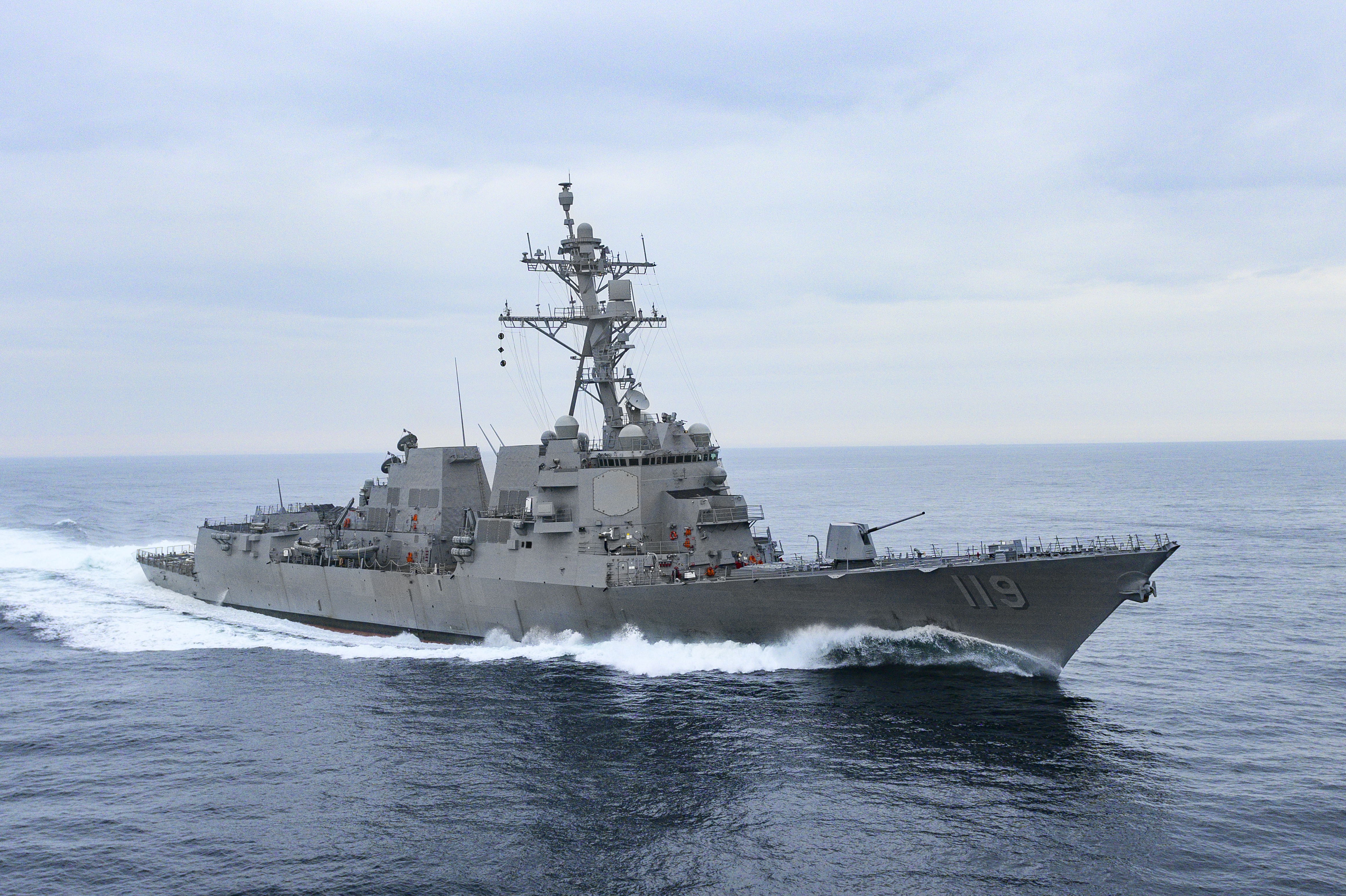 200219-O-NO101-150 GULF OF MEXICO (Feb. 19, 2020) The Arleigh Burke-class guided-missile destroyer Pre-Commissioning Unit (PCU) Delbert Black (DDG 119) conducts the second builder's trials in the Gulf of Mexico. (U.S. Navy photo courtesy of HII by Lance Davis/Released)